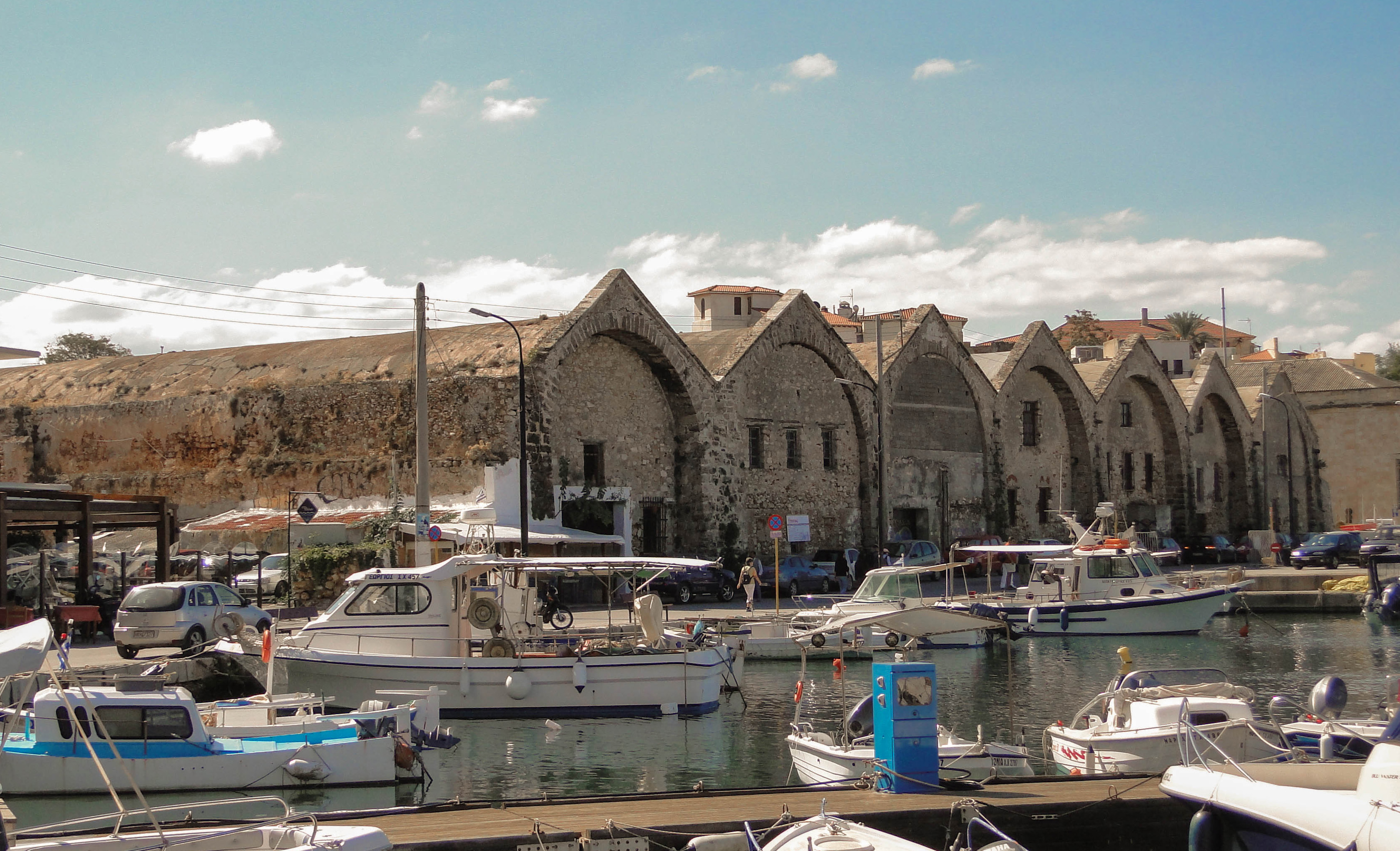 Venetian shipyards in Chania, Crete, Greece